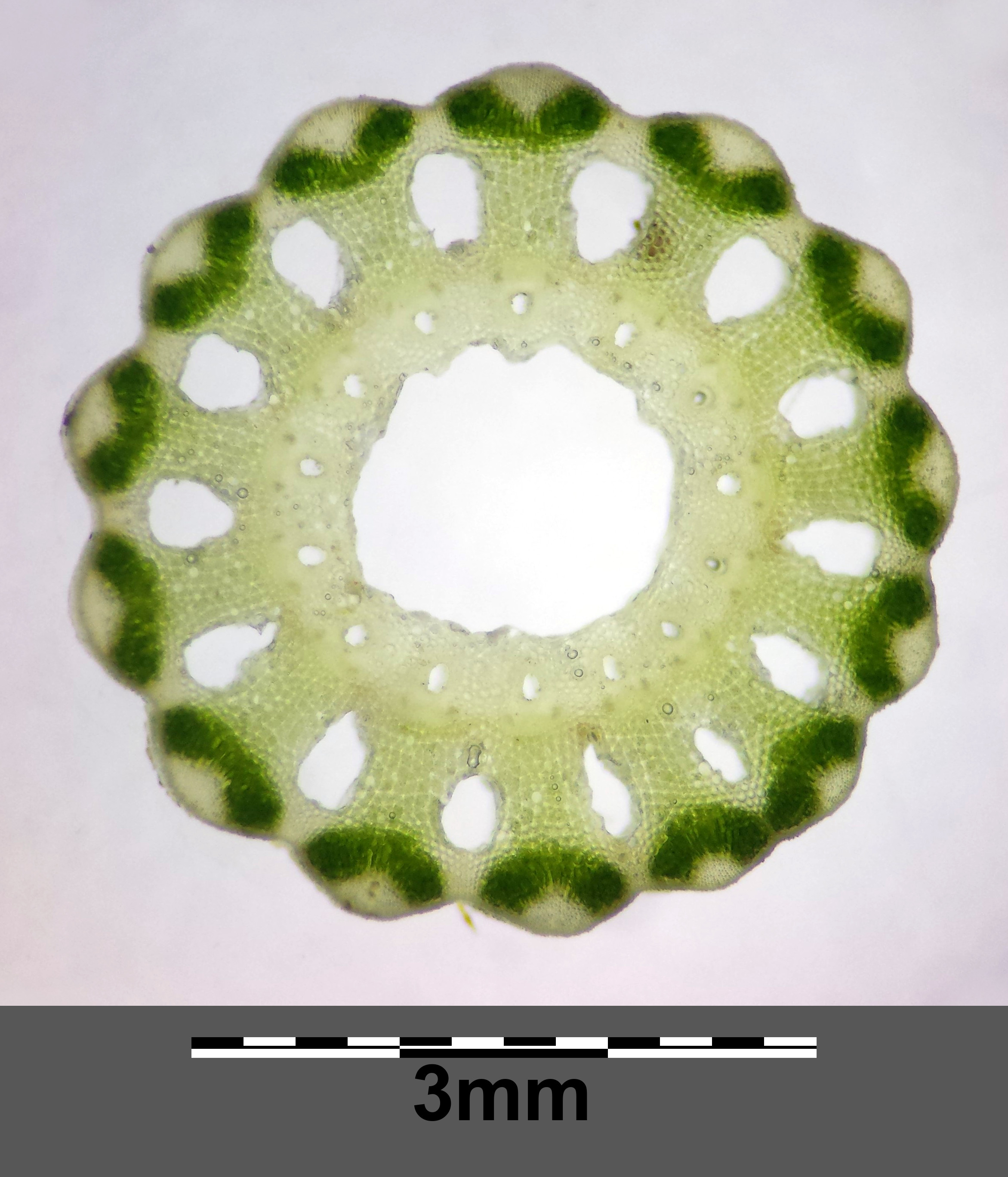 Cross section of stem (sterile stem) Taxonym: Equisetum arvense subsp. arvense ss Fischer et al. EfÖLS 2008 ISBN 978-3-85474-187-9 Location: near Niederhollabrunn, district Korneuburg, Lower Austria - ca. 350 m a.s.l. Habitat: field